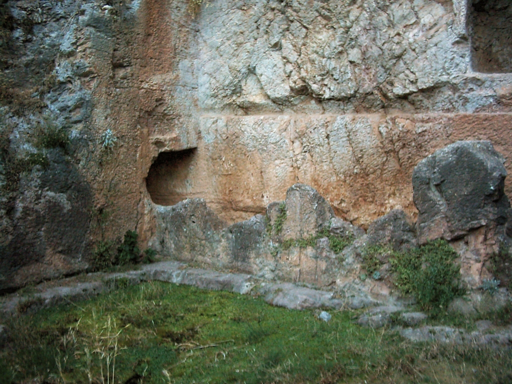 Keeping of the water and niches above cistern of the Castalian spring at Delphi. (Photo is laterally correct.)